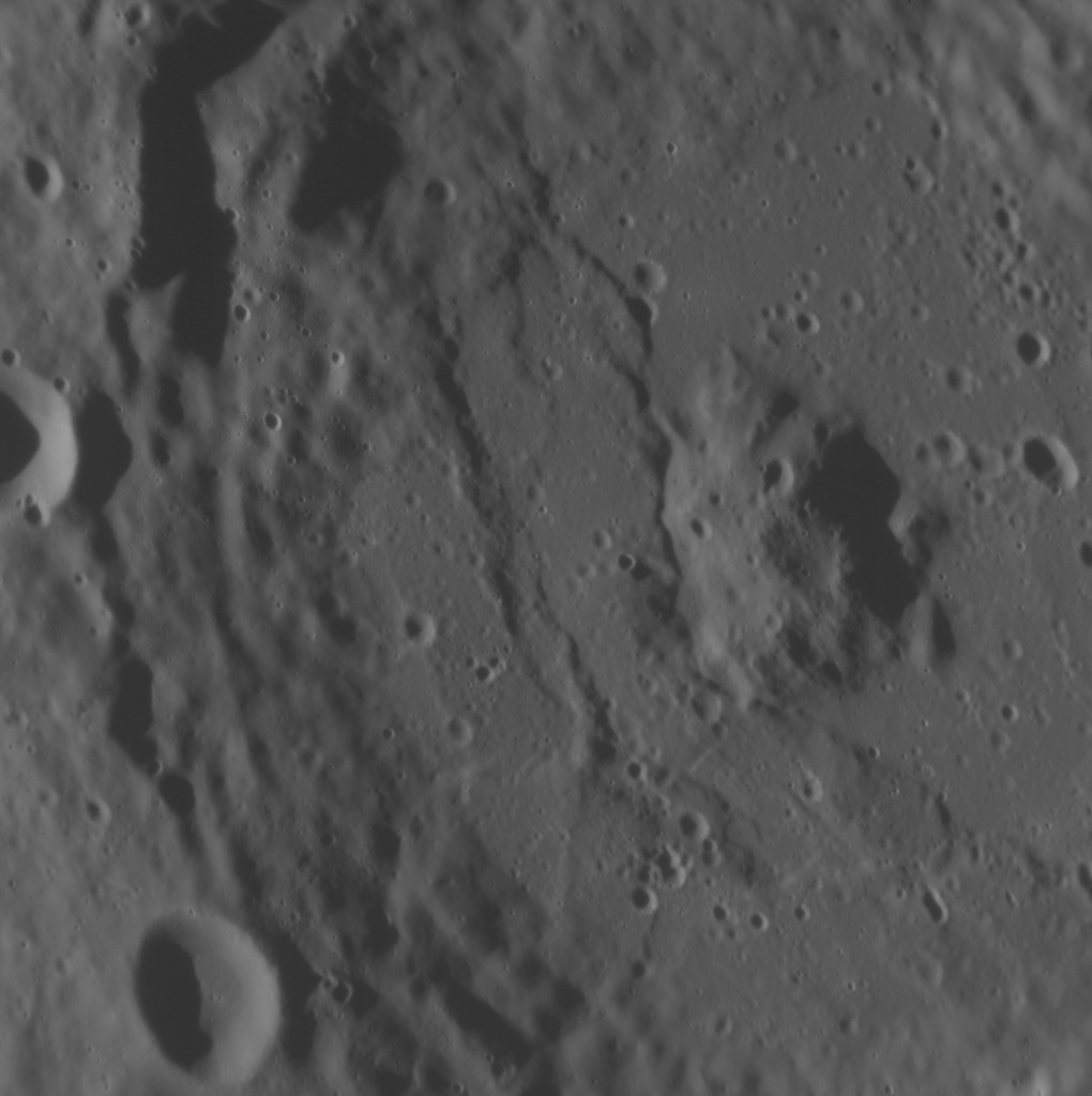 Oblique view of Donne crater on Mercury. MESSENGER Narrow Angle Camera image. North is at top. Width is about 73 km. Emission Angle: 38.4 Incidence Angle: 75.7 Latitude: 2.9 Longitude: 345.7 Phase Angle: 109.5